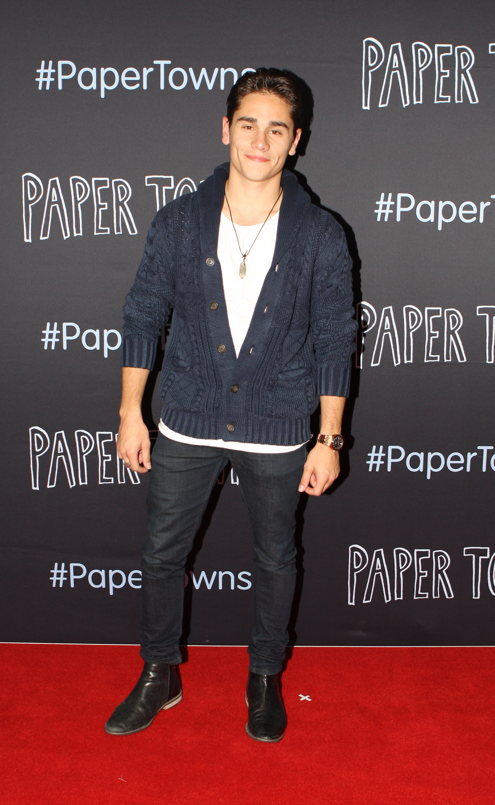 Paper Towns Australian Premiere